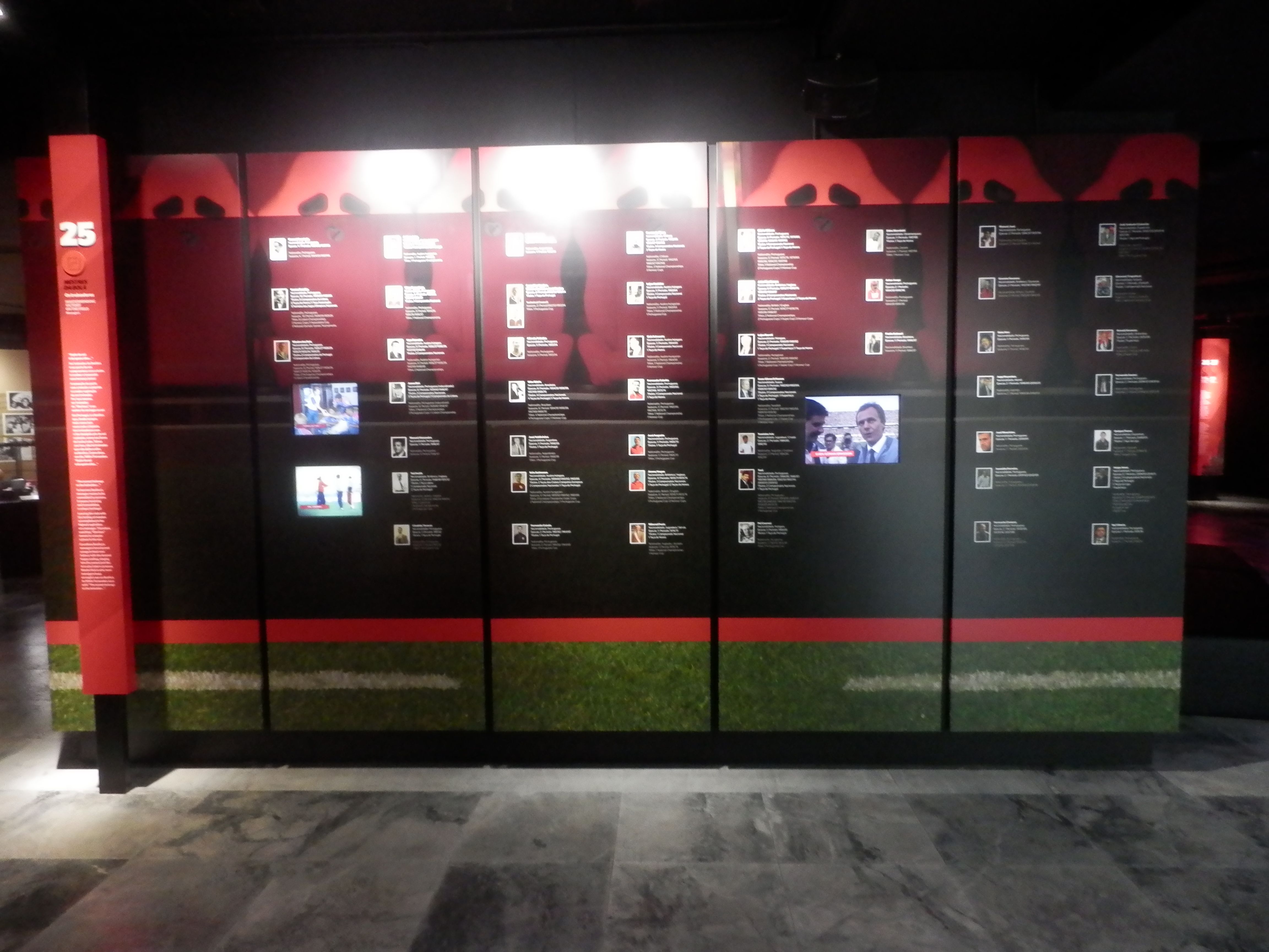 All of the club coaches listed